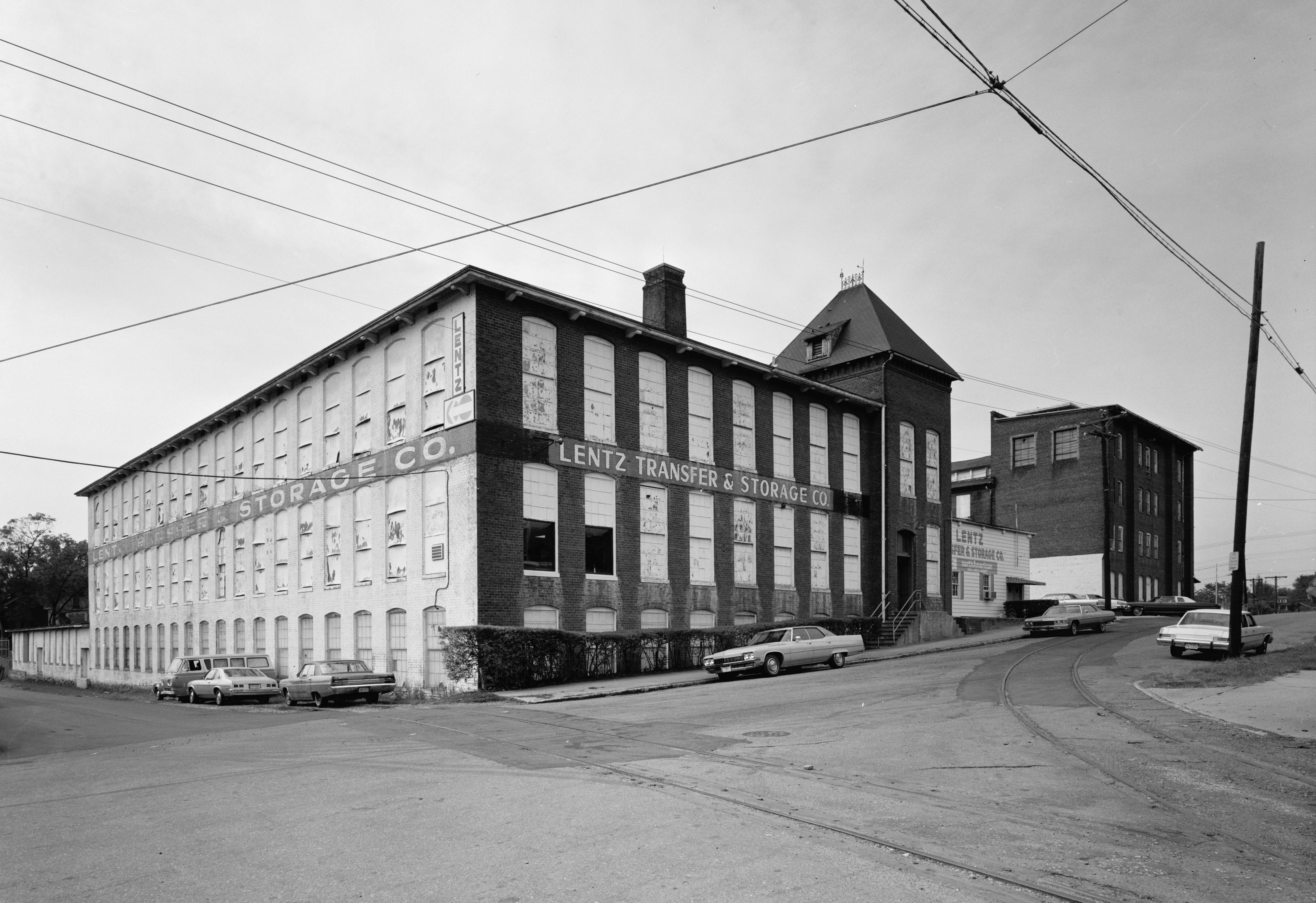 Salem Manufacturing Company, Arista Cotton Mill, Brookstown & Marshall Streets, Winston-Salem (Forsyth County, North Carolina)